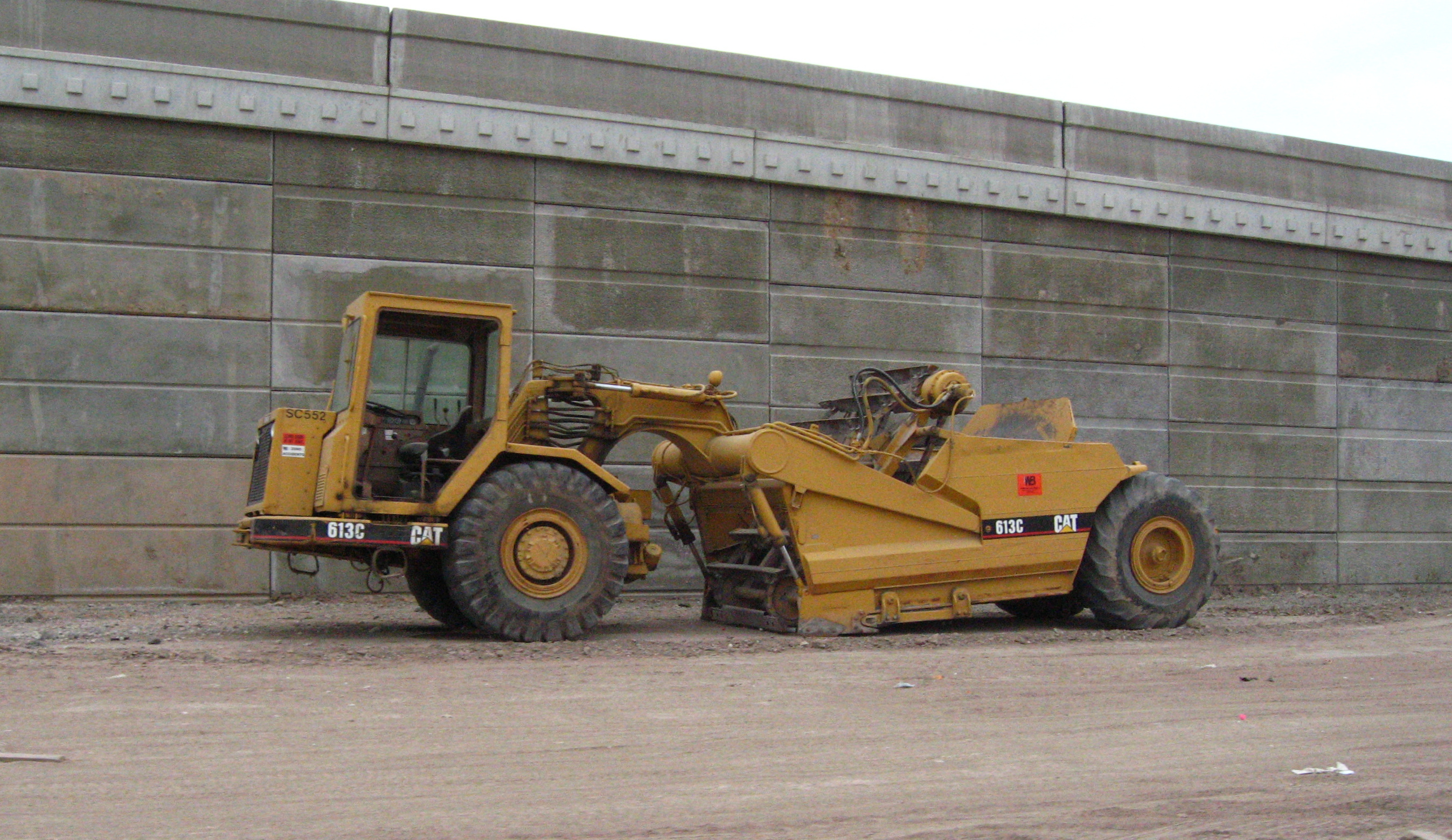 Caterpillar 613C Scraper doing grading work on I-10 @ Barker Cypress, Houston, Texas